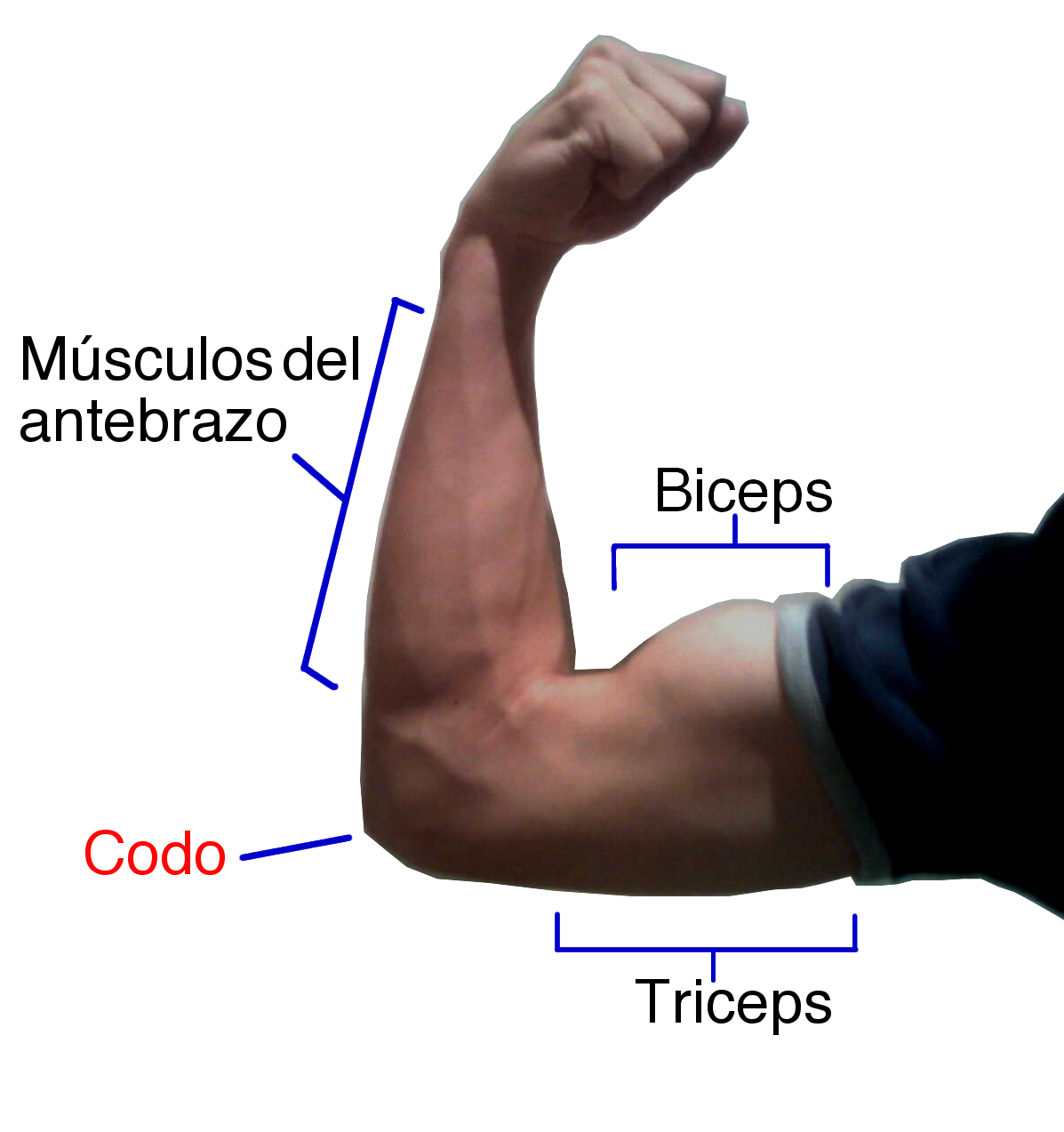 Male teenager's flexed biceps.